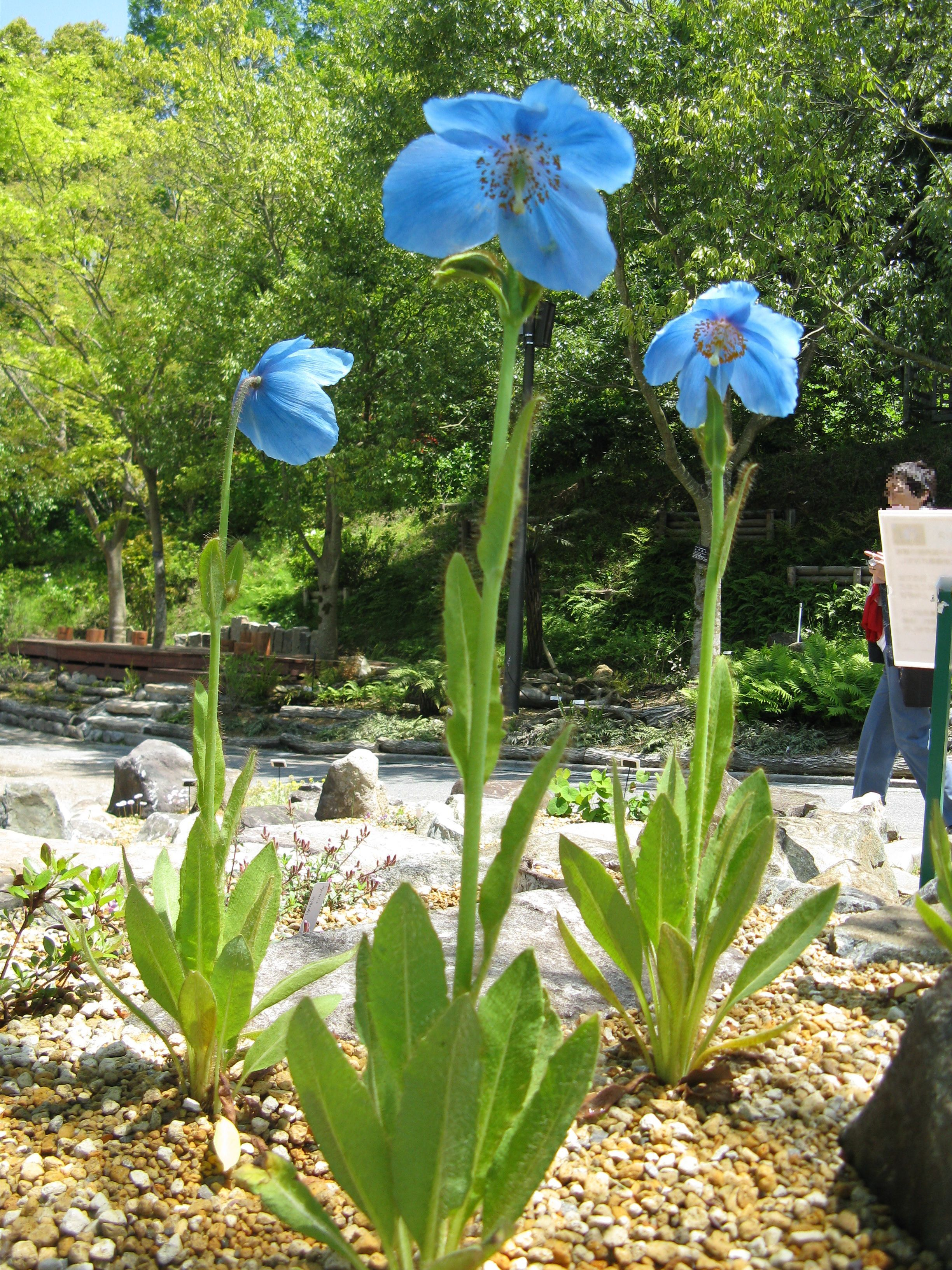 Meconopsis grandis Place:Osaka Prefectural Flower Garden,Osaka,Japan